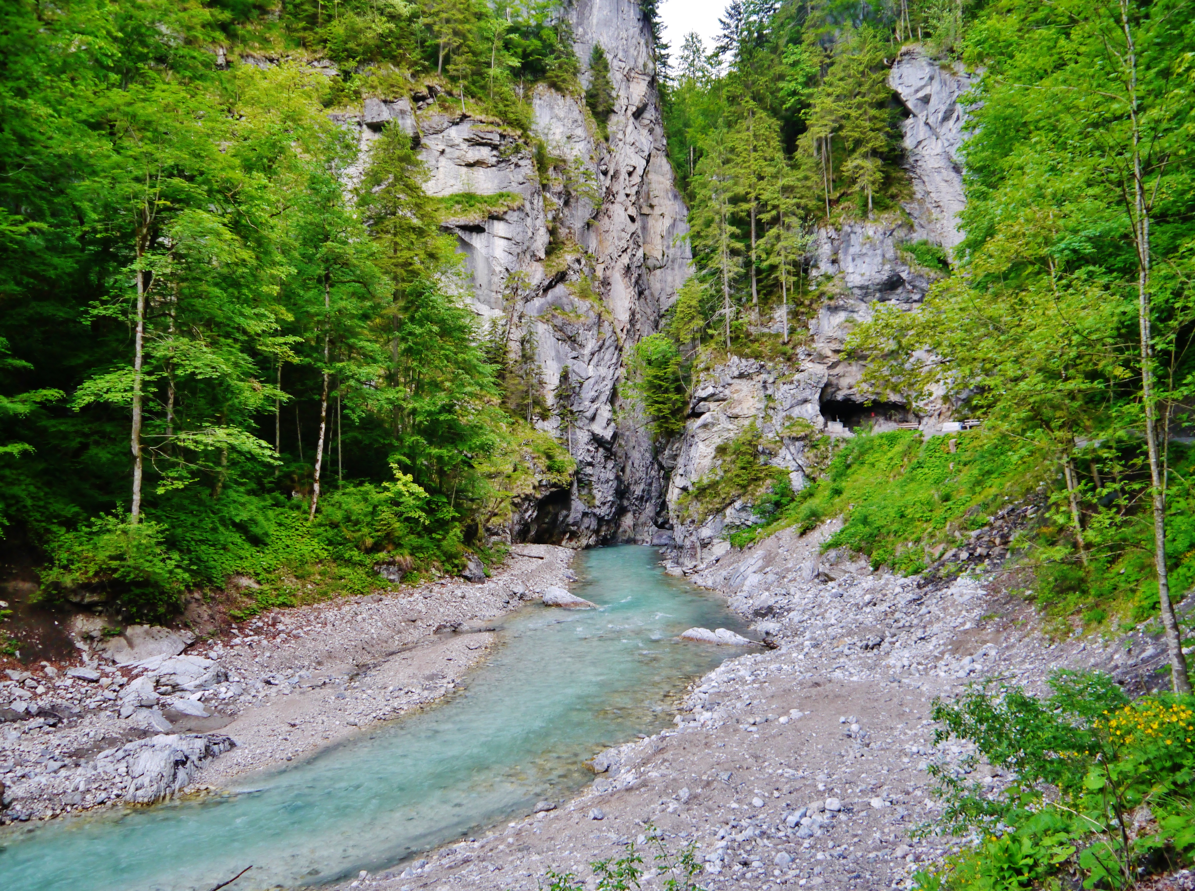 Partnach Gorge, Garmisch-Partenkirchen, Bavaria, Germany